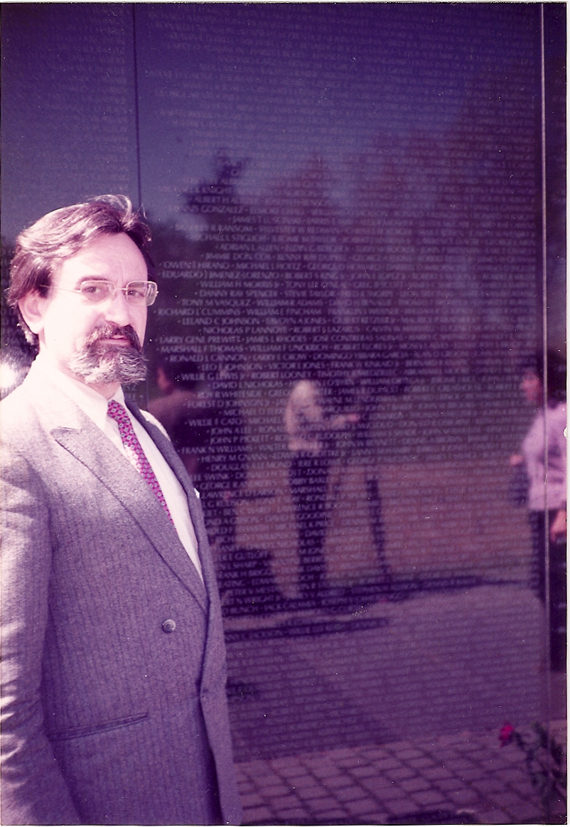 Mirko Vidović in front of the Vietnam Memorial, Washington, during the eighties.